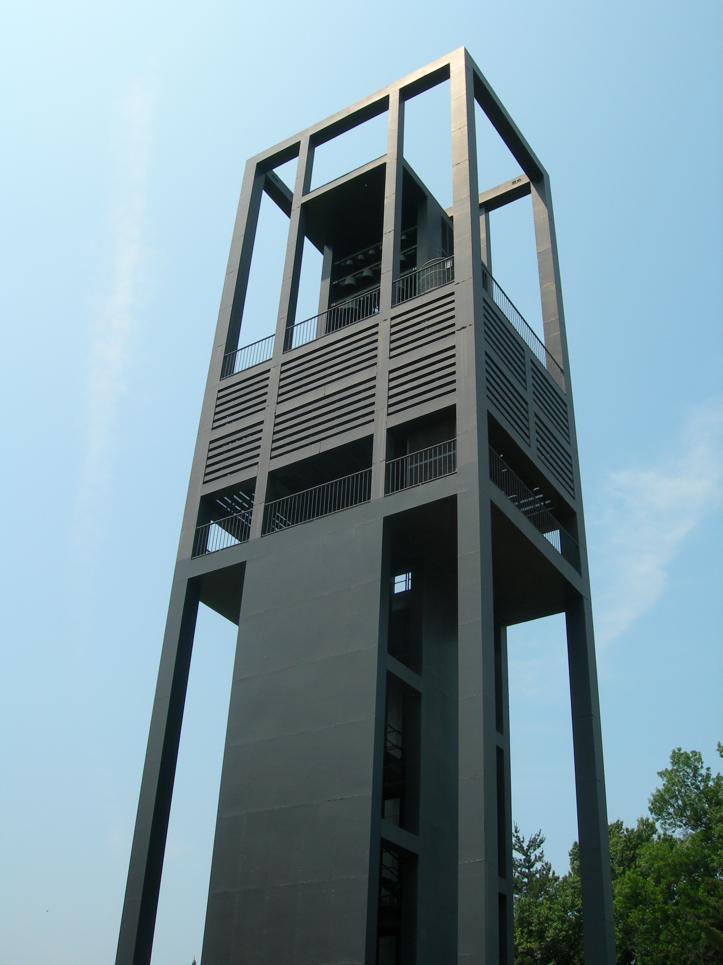 Netherlands Carillon in Arlington, Virginia near Arlington National Cemetery